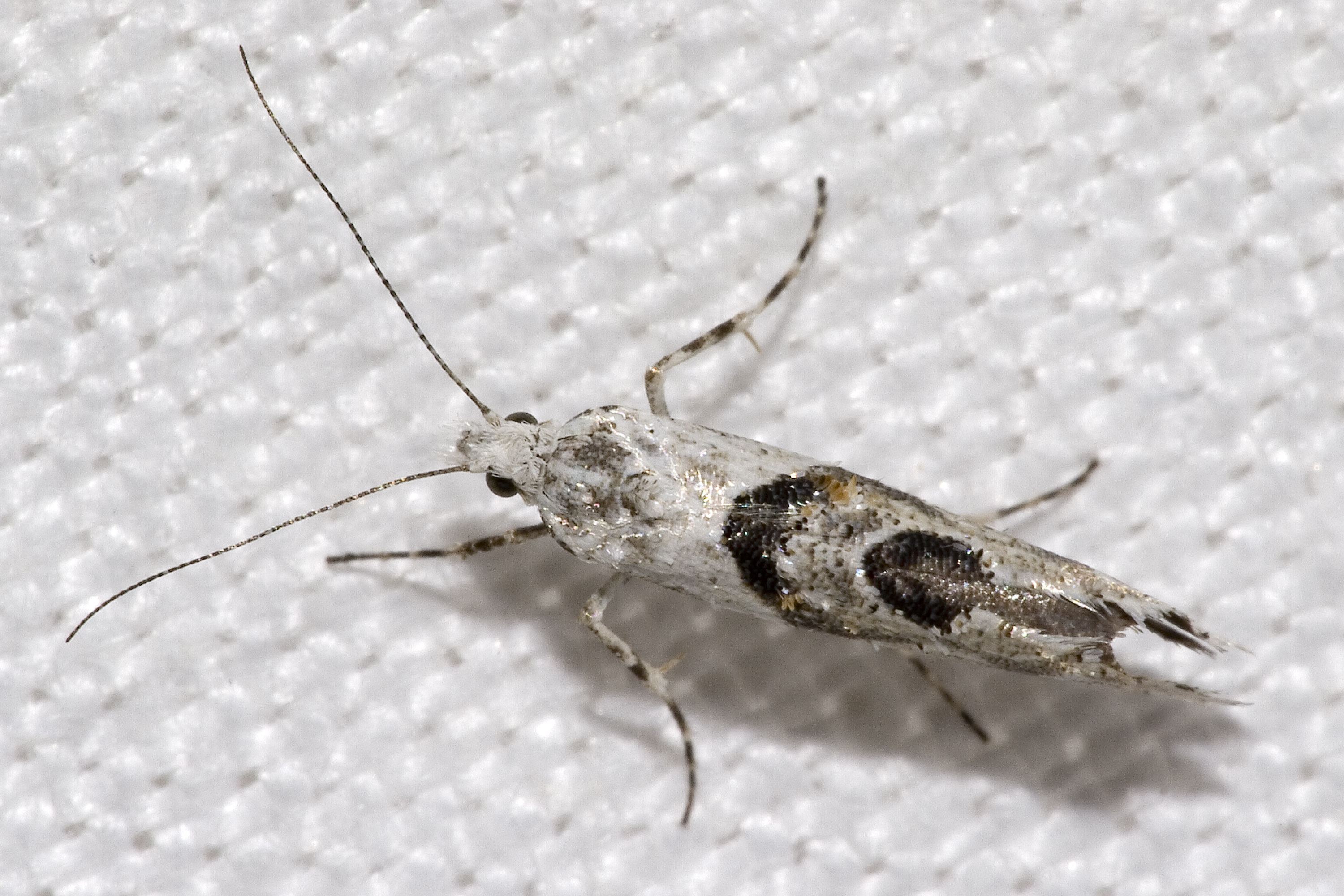 Ypsolopha asperella